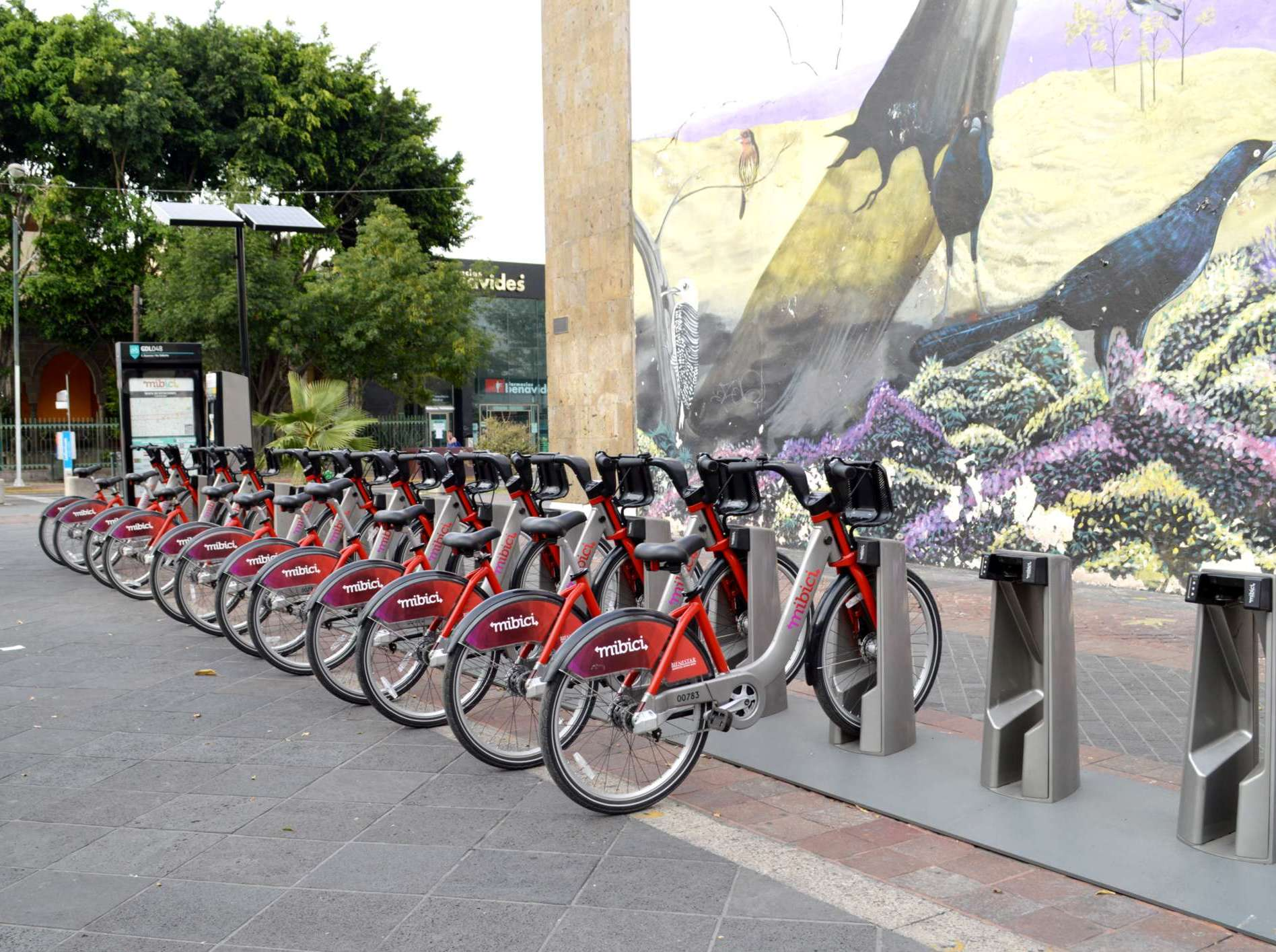 Public bicycles at the Rambla Catalunya in Guadalajara, Mexico